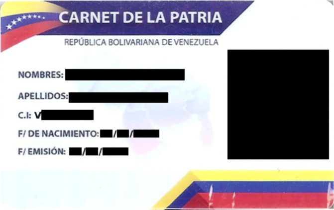 Venezuelan Carnet de la Patria obverse. Data and picture redacted to protect owner's identity.